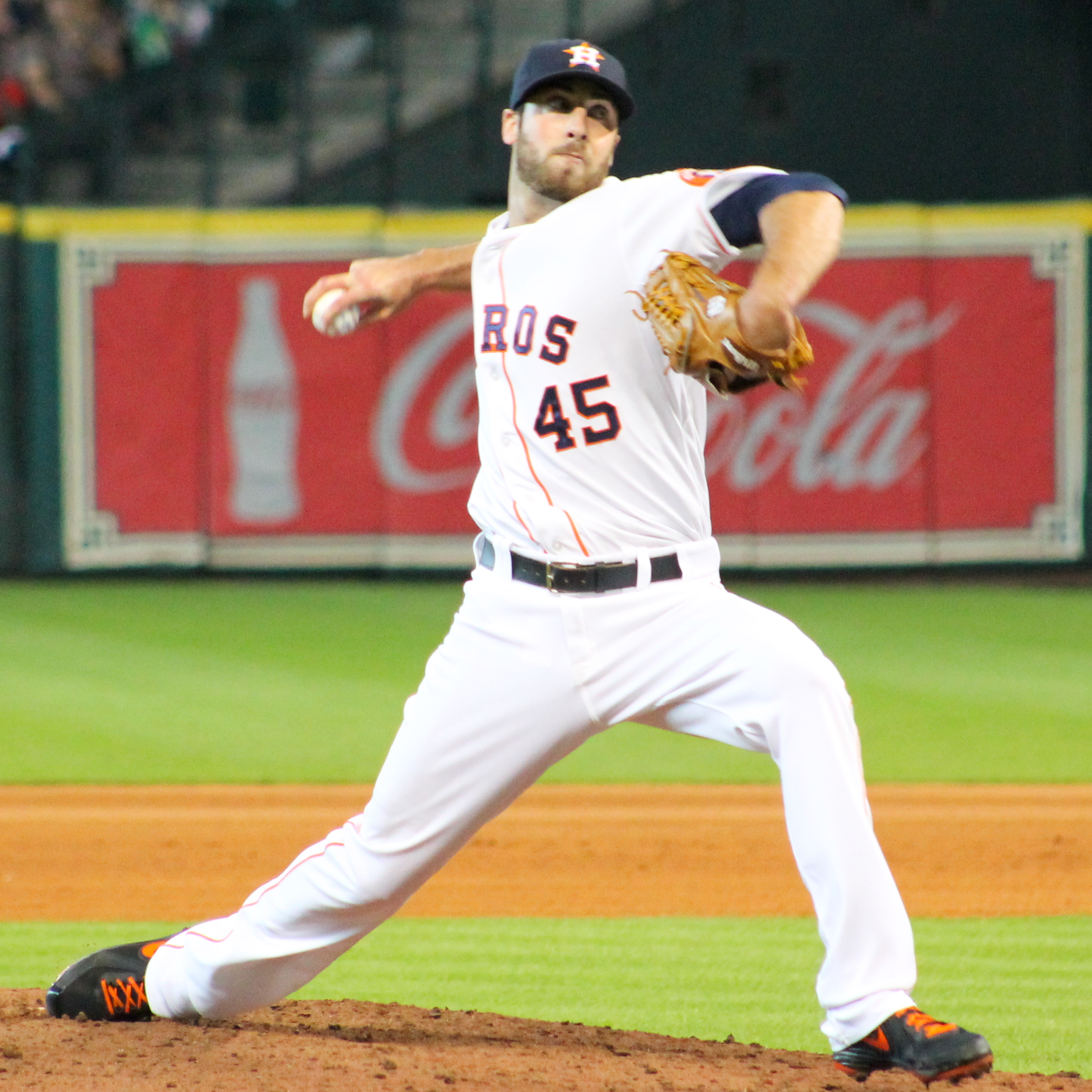 Major League Baseball pitcher Anthony Bass at Minute Maid Park in July 2014.